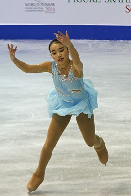 Photos – Junior World Championships 2014 – Ladies (Karen Chen)